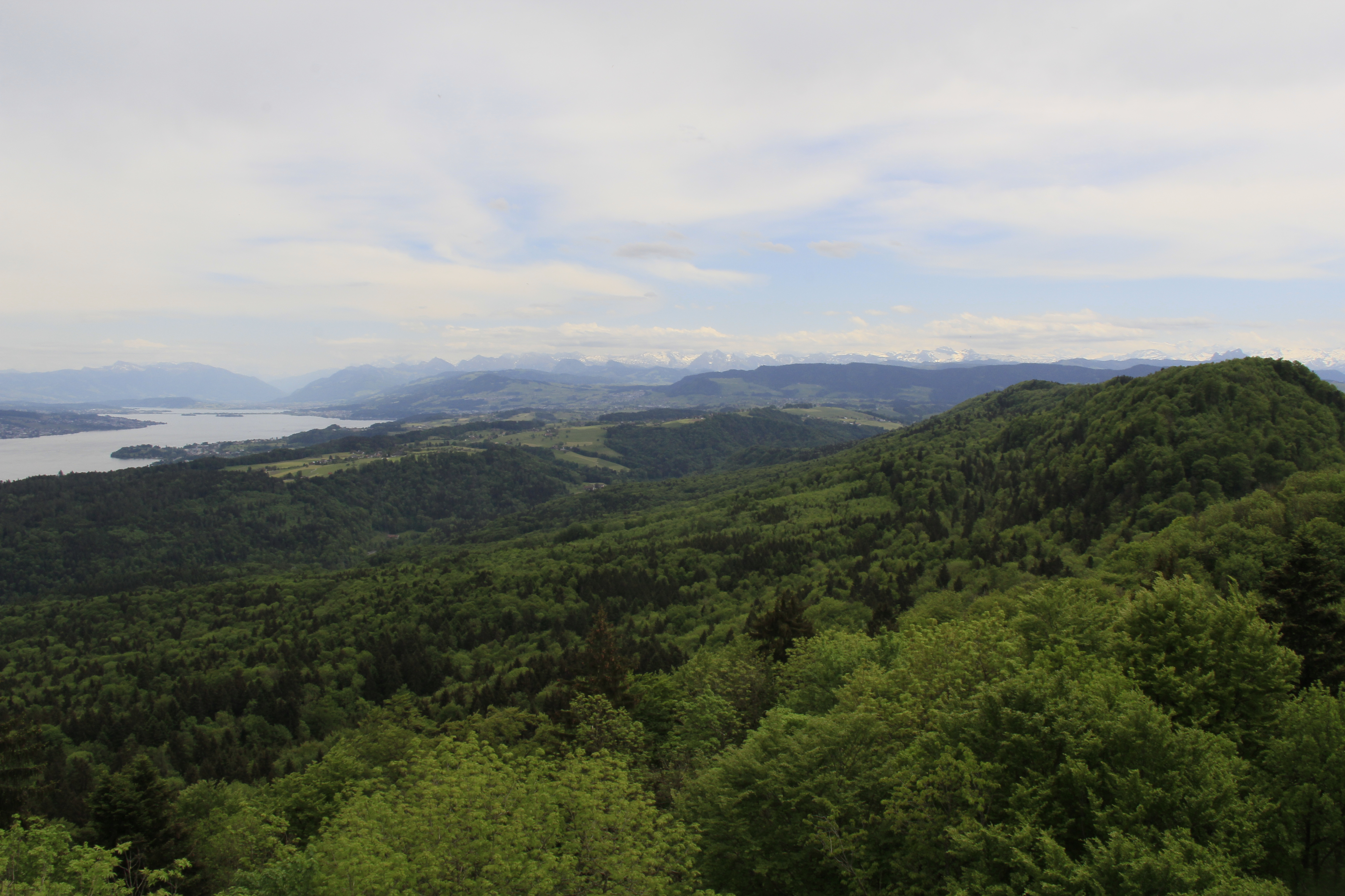 Wildnispark Zürich-Sihlwald, looking south from the lookout tower Hochwacht, over the Lake of Zürich Lake to the Alps.